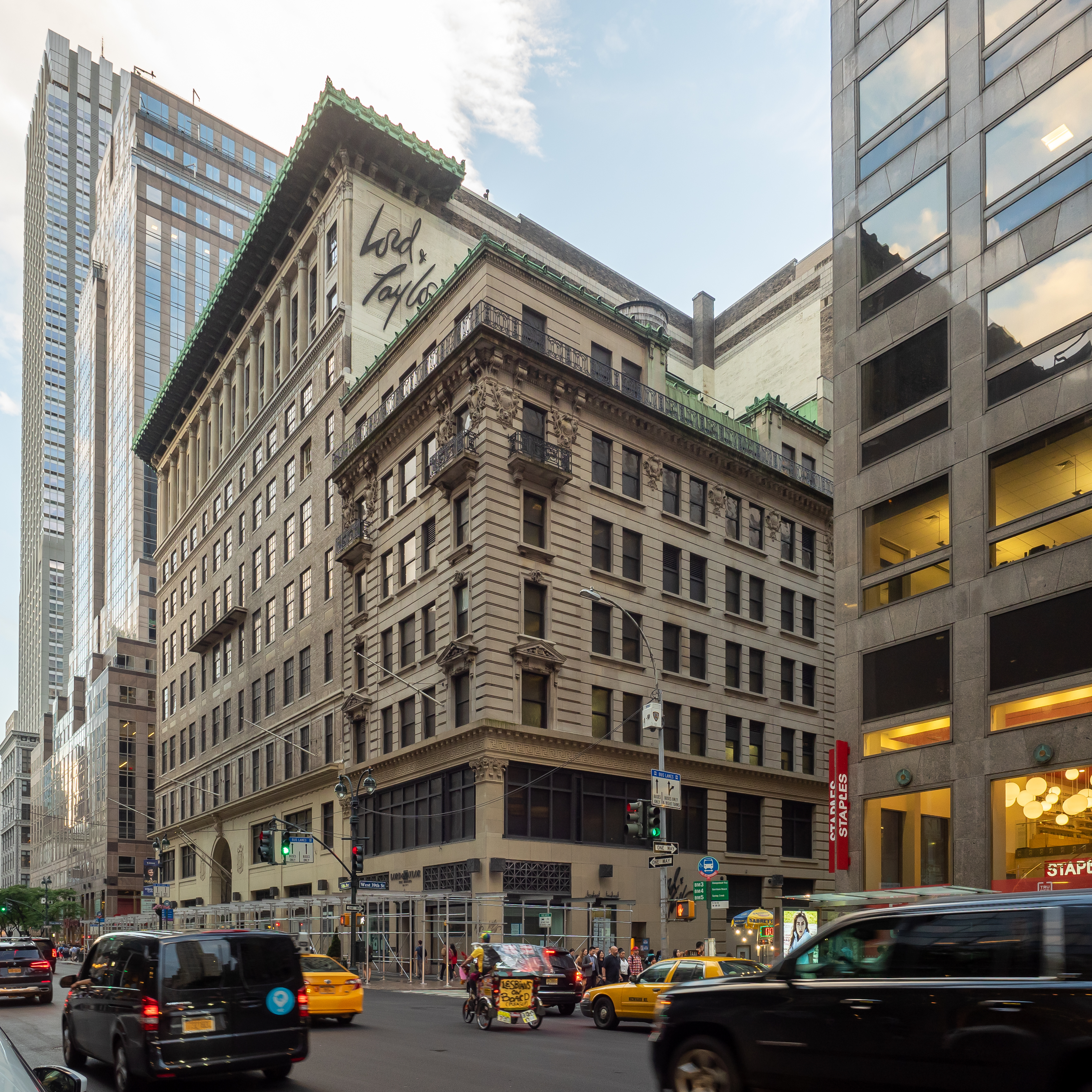 Midtown, NYC